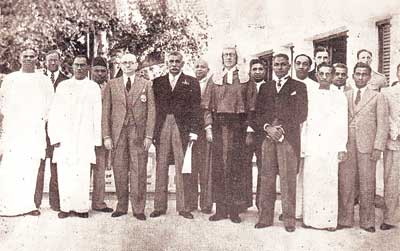 The First Cabinet of Ministers of Ceylon in 1947, headed by Rt Hon D.S. Senanayake as first Prime Minister of Ceylon. Also in the picture Sir Henry Monck-Mason Moore the Governor of Ceylon, and the Chief Justice.සිංහල: පළමු ලංකාවේ අග්‍රාමාත්‍ය ලෙසින්, මහාමාන්‍ය ඩී.එස්. සේනානායකගේ‍ ප්‍රධානත්වයෙන් යුතුවූ, ලංකාවේ පළමු කැබිනට් අමාත්‍යවරුන් 1947දී. ලංකා ආණ්ඩුකාර ශ්‍රිමත් හෙන්රි මොන්ක්-මේසන් මුවර් ද , අග්‍ර විනිශ්චයකාර වරයා ද මෙම ඡායාරූපයේ සිටිති.